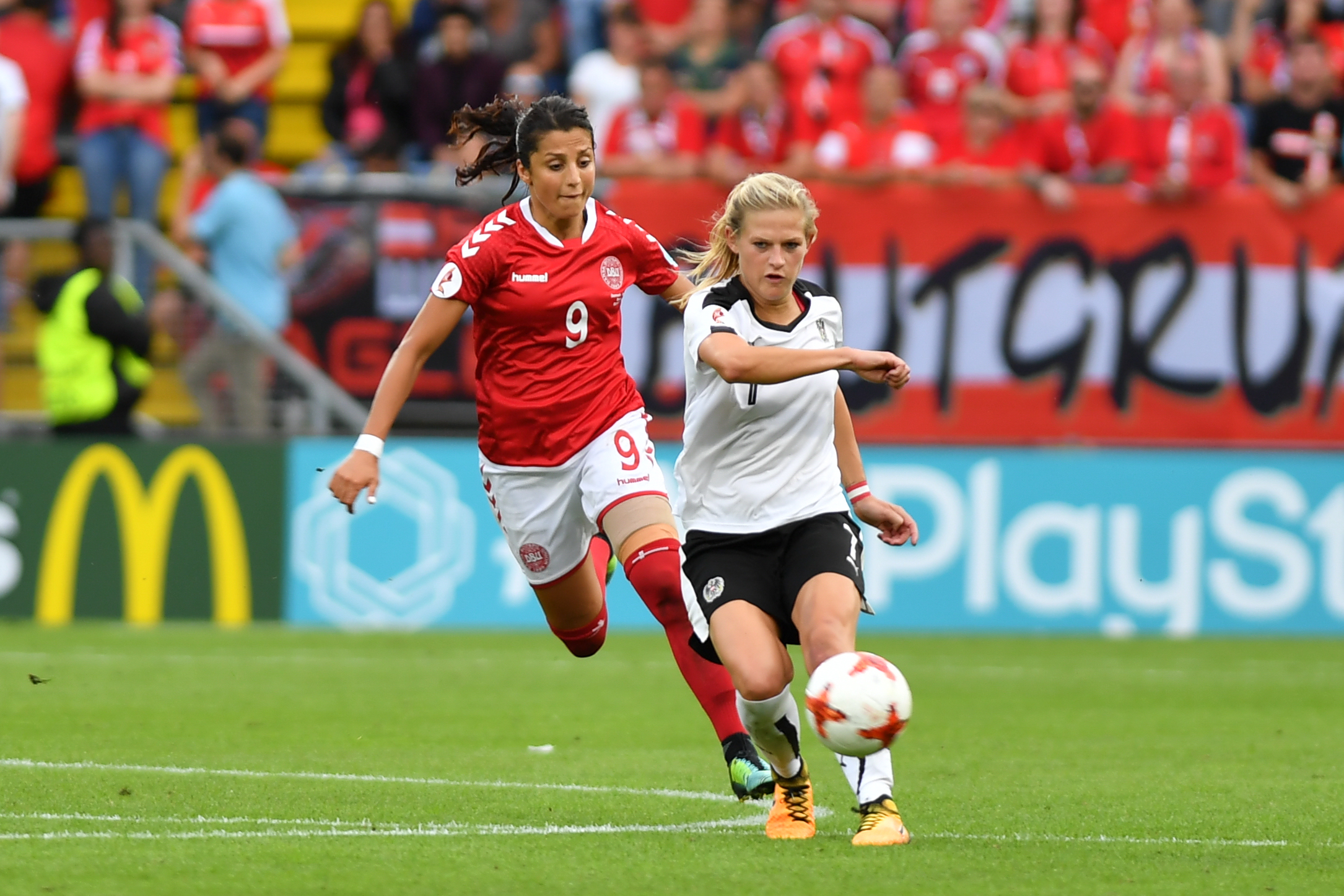 3/8/2017, Breda, Netherlands, sports, soccer, UEFA Women's Euro 2017 - Semifinal - Denmark vs Austria.